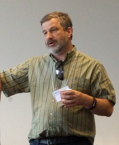 Israeli computer scientist Moni Naor at the DIMACS Workshop on Cryptography and its Interactions, July 12, Rutgers University, USA.